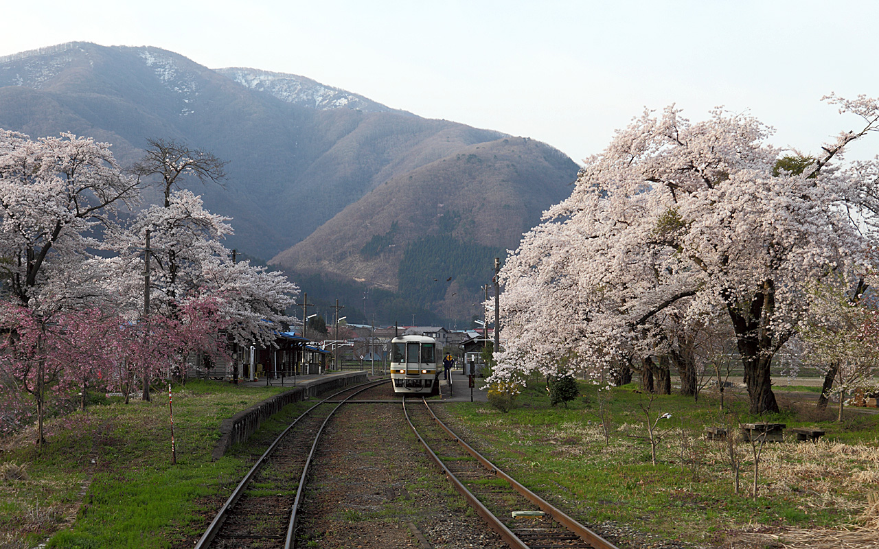 Aizu Railway Ashinomaki-Onsen Station